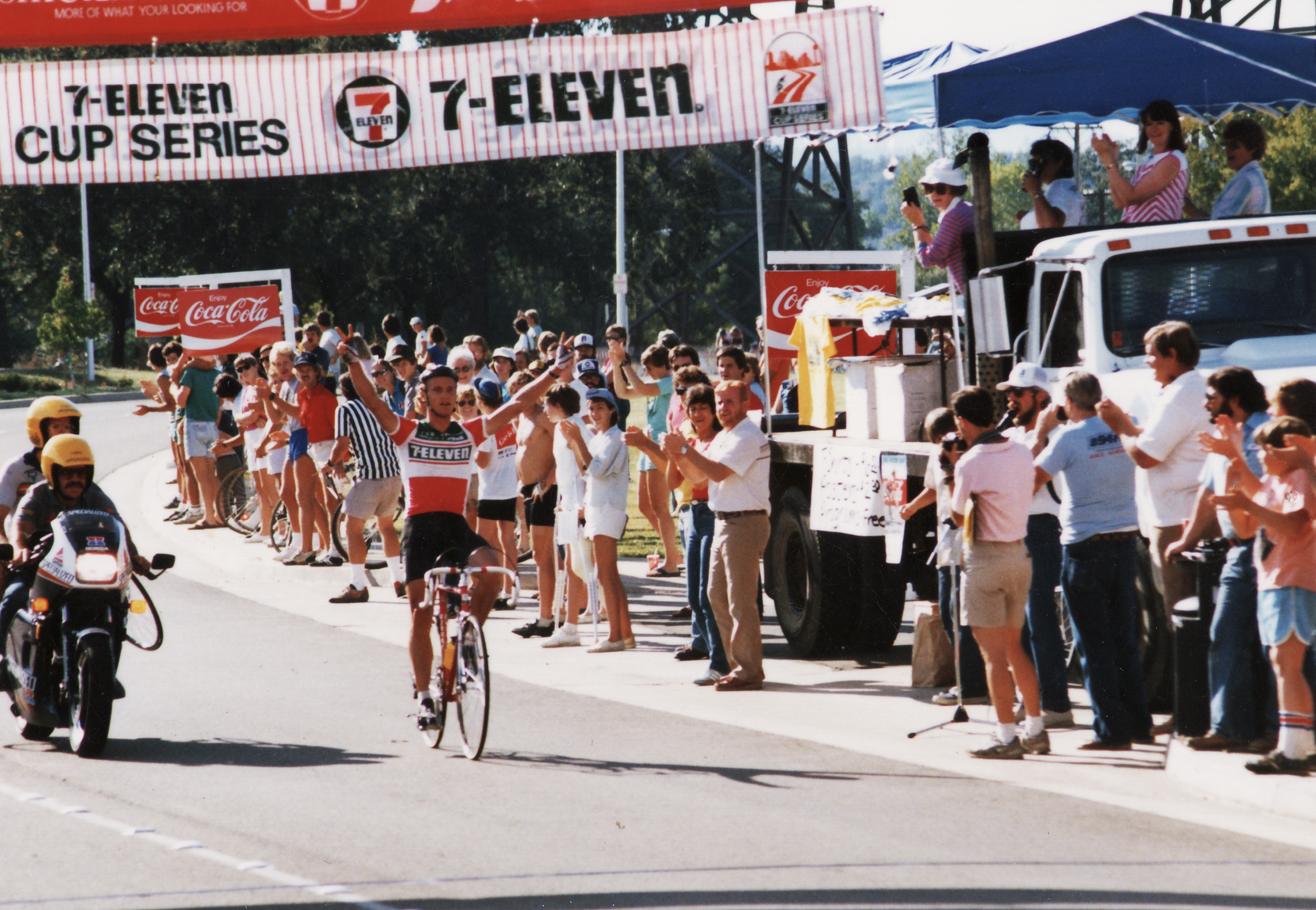 Chris Carmichael winning with 7-Eleven